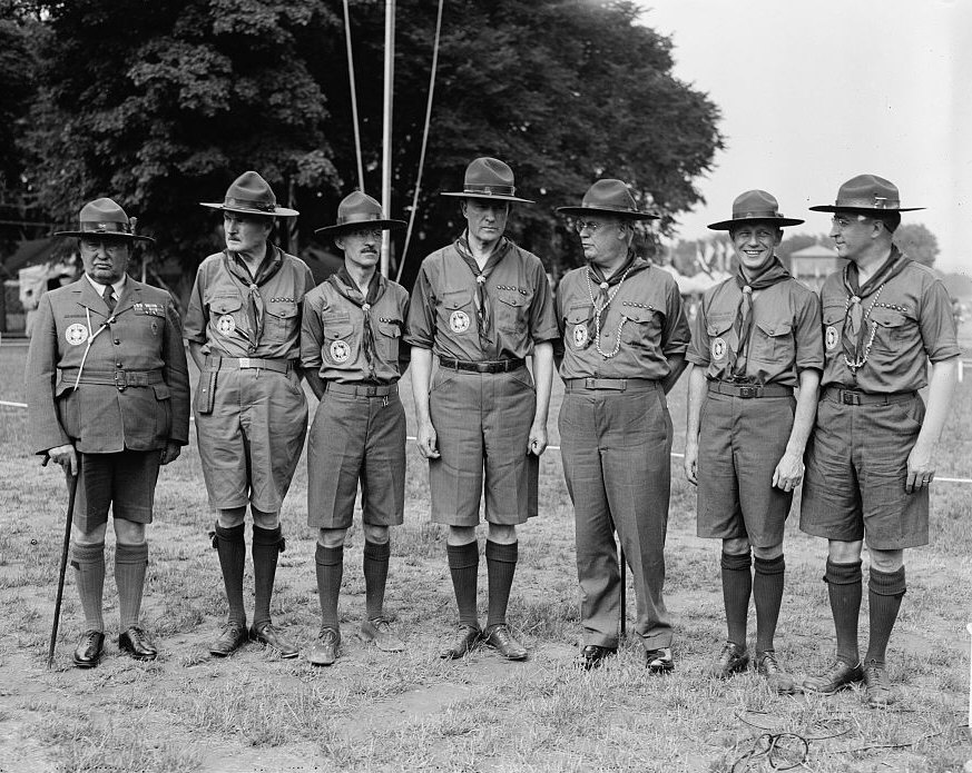 The leadership of the Boy Scouts of America, at the first National Scout Jamboree held in the U.S. The event took place at Washington, D.C. in 1937. Pictured (l-to-r): Daniel T. McMannus, representing the Boy Scouts of Canada E.S. Martin, Director of Public Information National Program Director E. Urner Goodman BSA President Walter W. Head Chief Scout Executive James E. West National Operations Director Arthur Schuck National Personnel Director Harold Pote